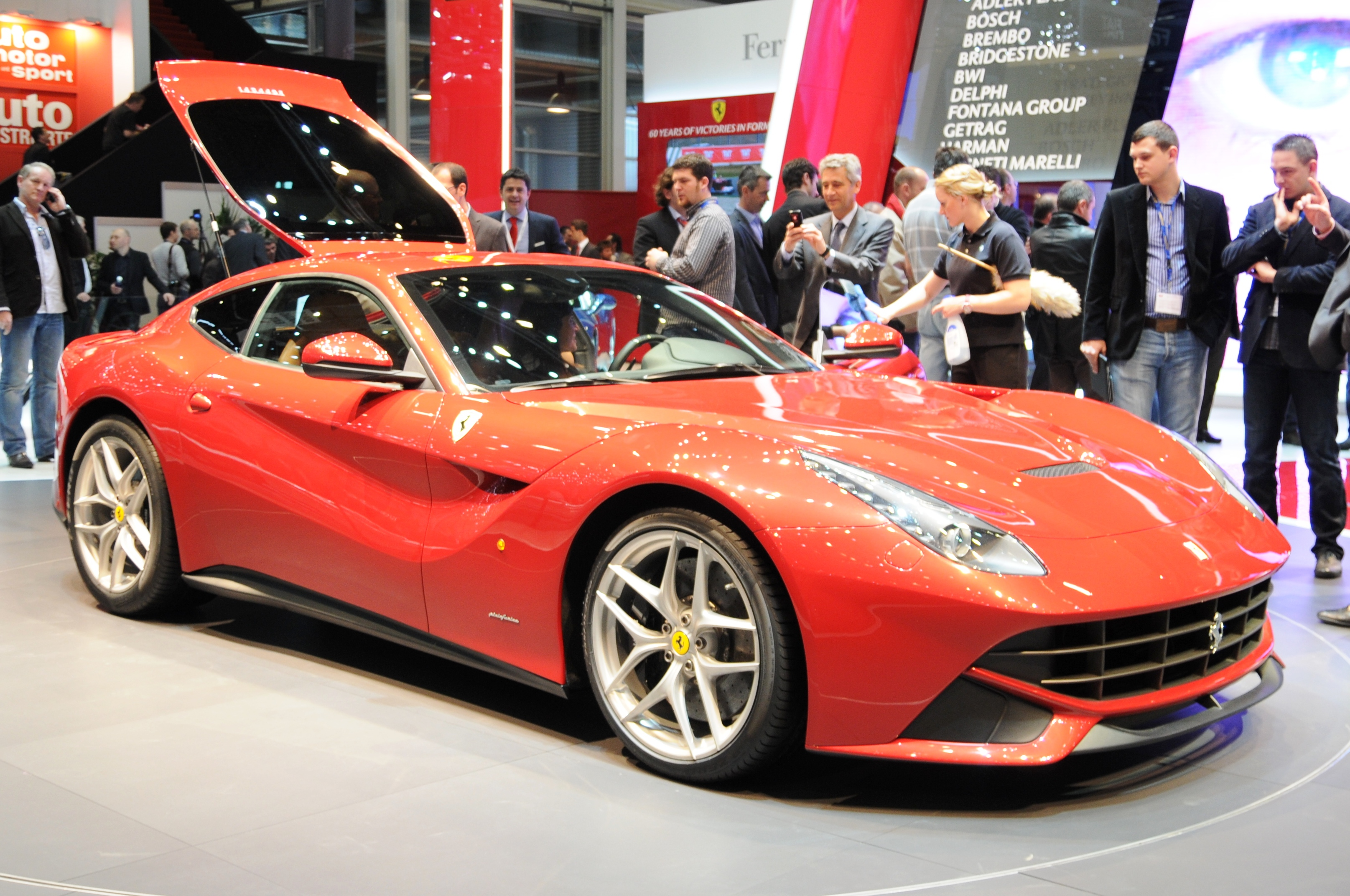 Geneva Motor Show 2012 (photos taken on the second press day)